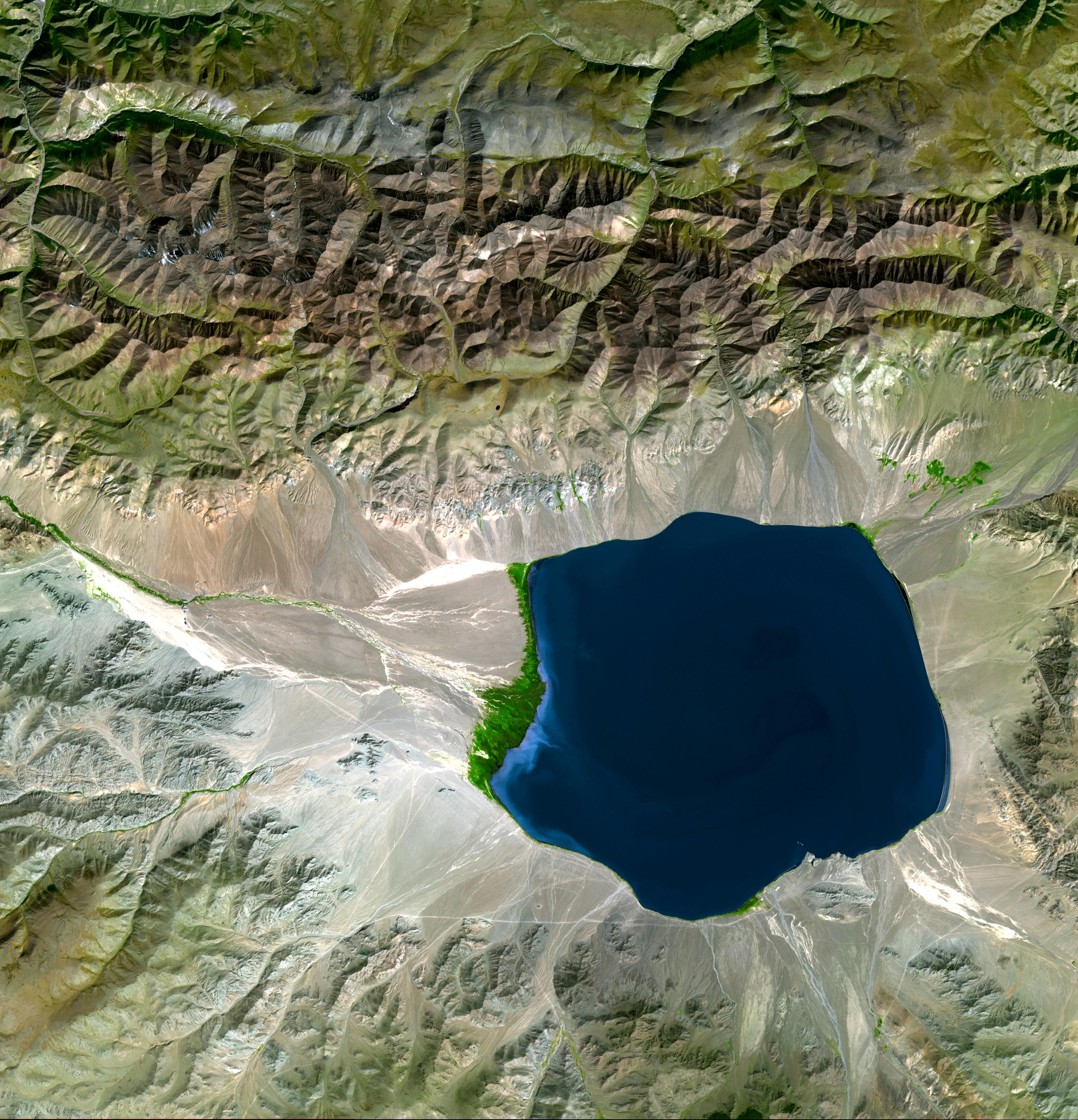 Üüreg Nuur in the Great Lakes Depression in western Mongolia. The NASA source incorrectly labels and describes this picture as Uvs Nuur. Üüreg Nuur is located to the south west just outside of the Uvs Nuur basin. A larger view in Google maps shows both lakes in context for verification.